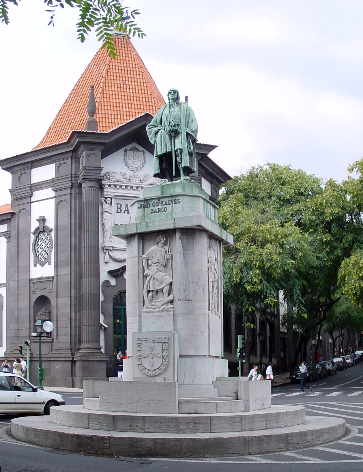 Joao Goncalves Zarco founded Funchal (Madeira) in 1425 and his statue stands in the middle of the town centre. Looking direction NW